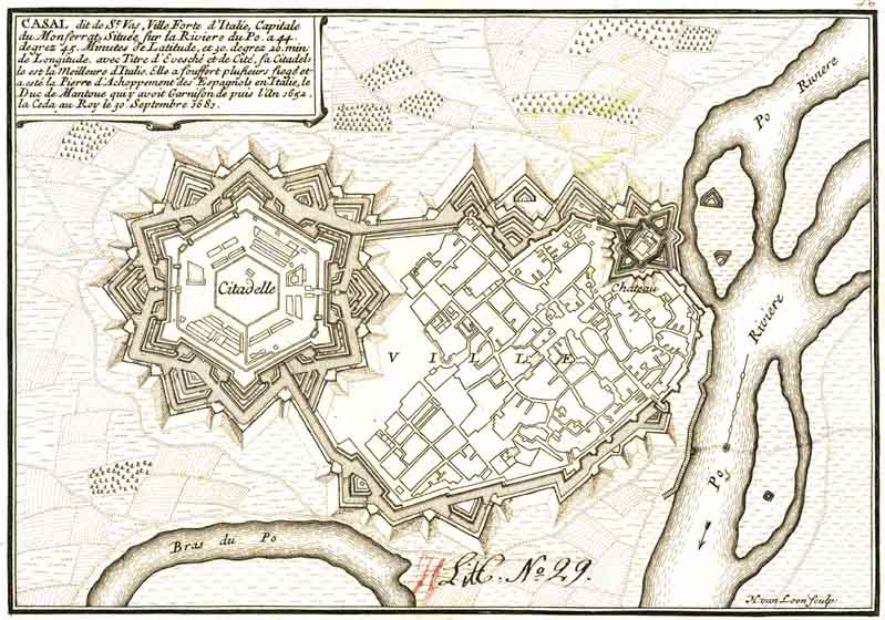 Plan of the fortified city of Casale Monferrato described by the source as 0406:15:018:003